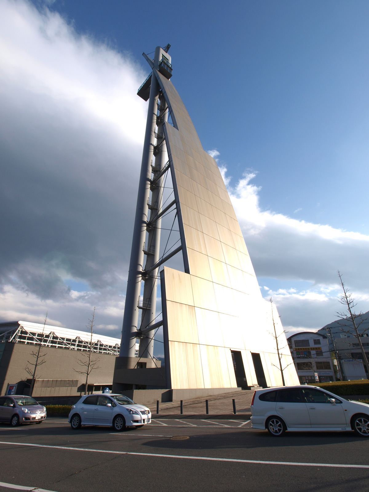 B-Con Plaza, Beppu City, Oita Pref., Japan